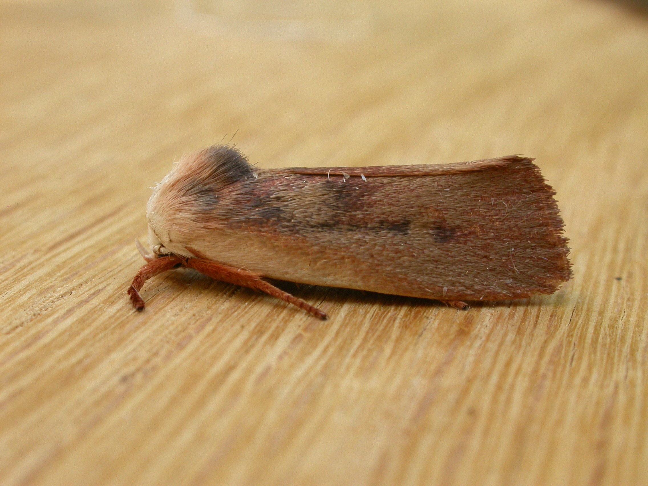 Cryptophasa rubescens Lewin, 1805, to MV light, Blackheath, NSW, 14/15 January 2009